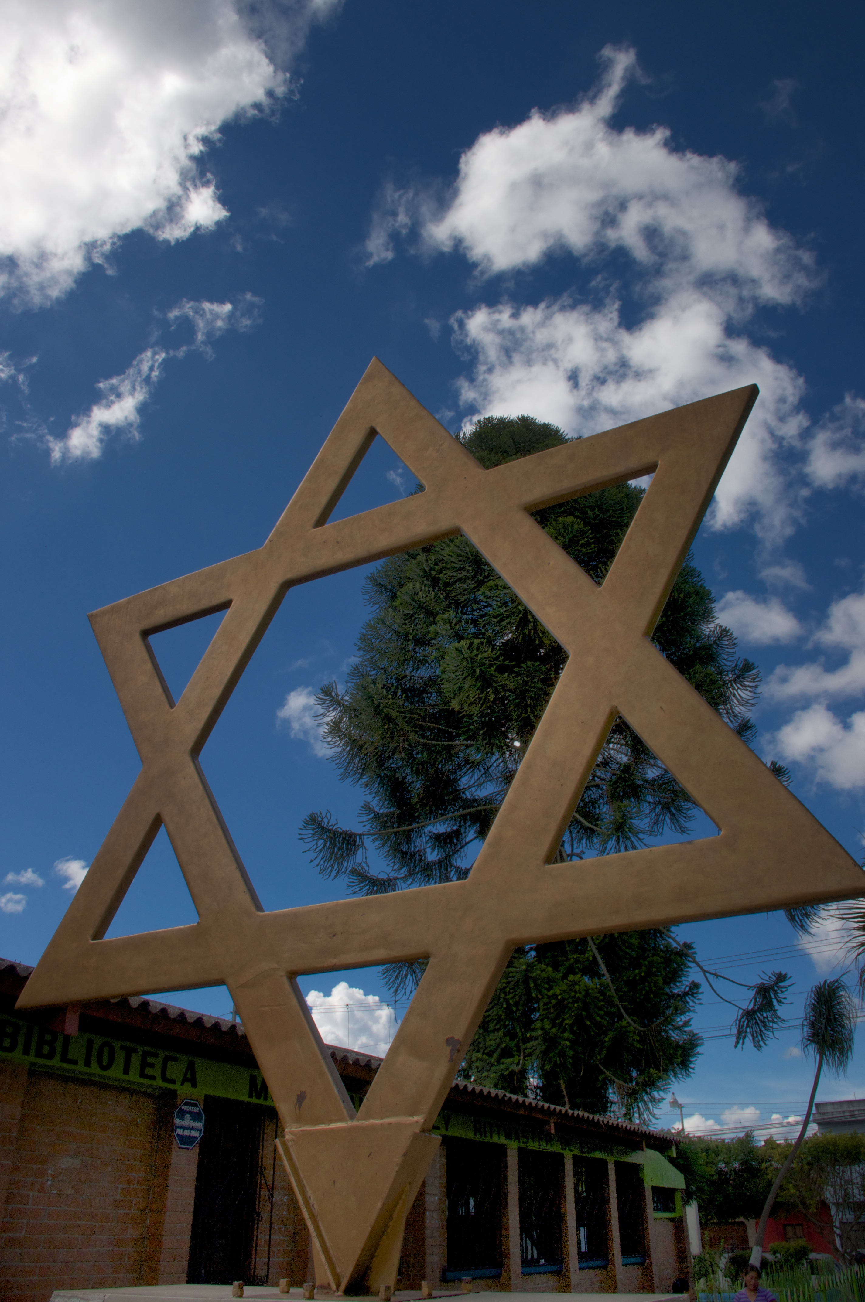 Monument Erected in Honor of the Israeli-Guatemalan cooperation in the Village of El Tejar - Department of Chimaltenango - Guatemala.